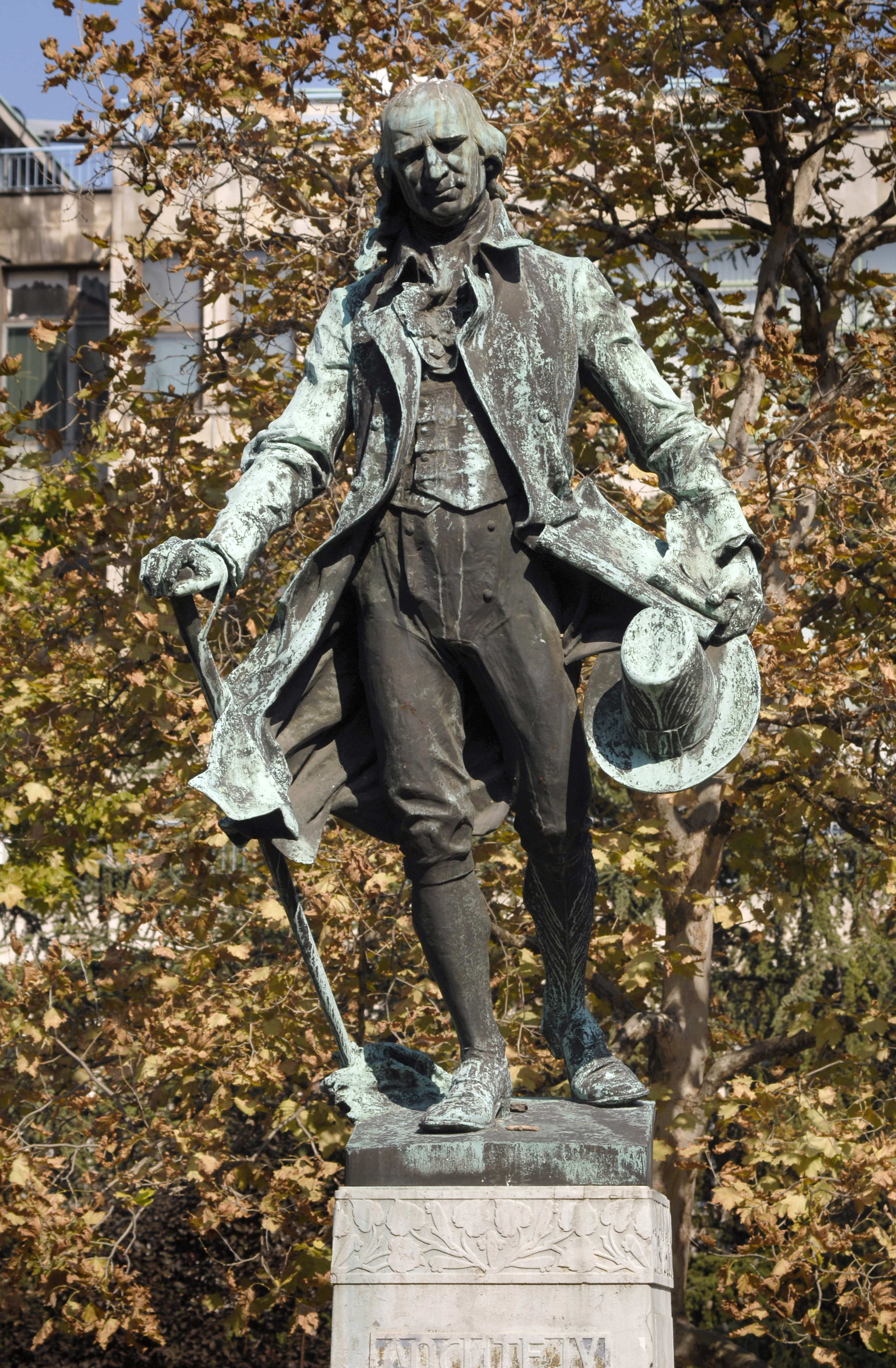 Споменик Доситеју Обрадовићу